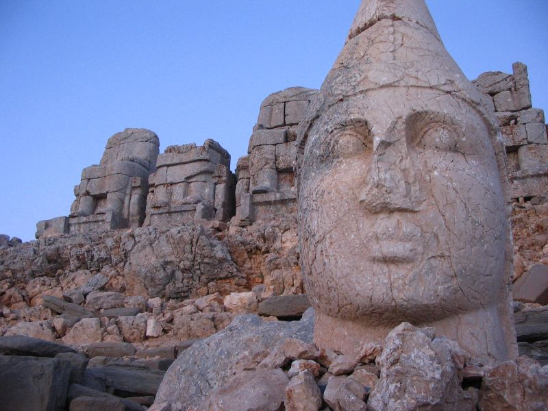 Mount Nemrut